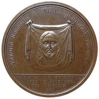 Medal of Polotsk synod, avers, 1839